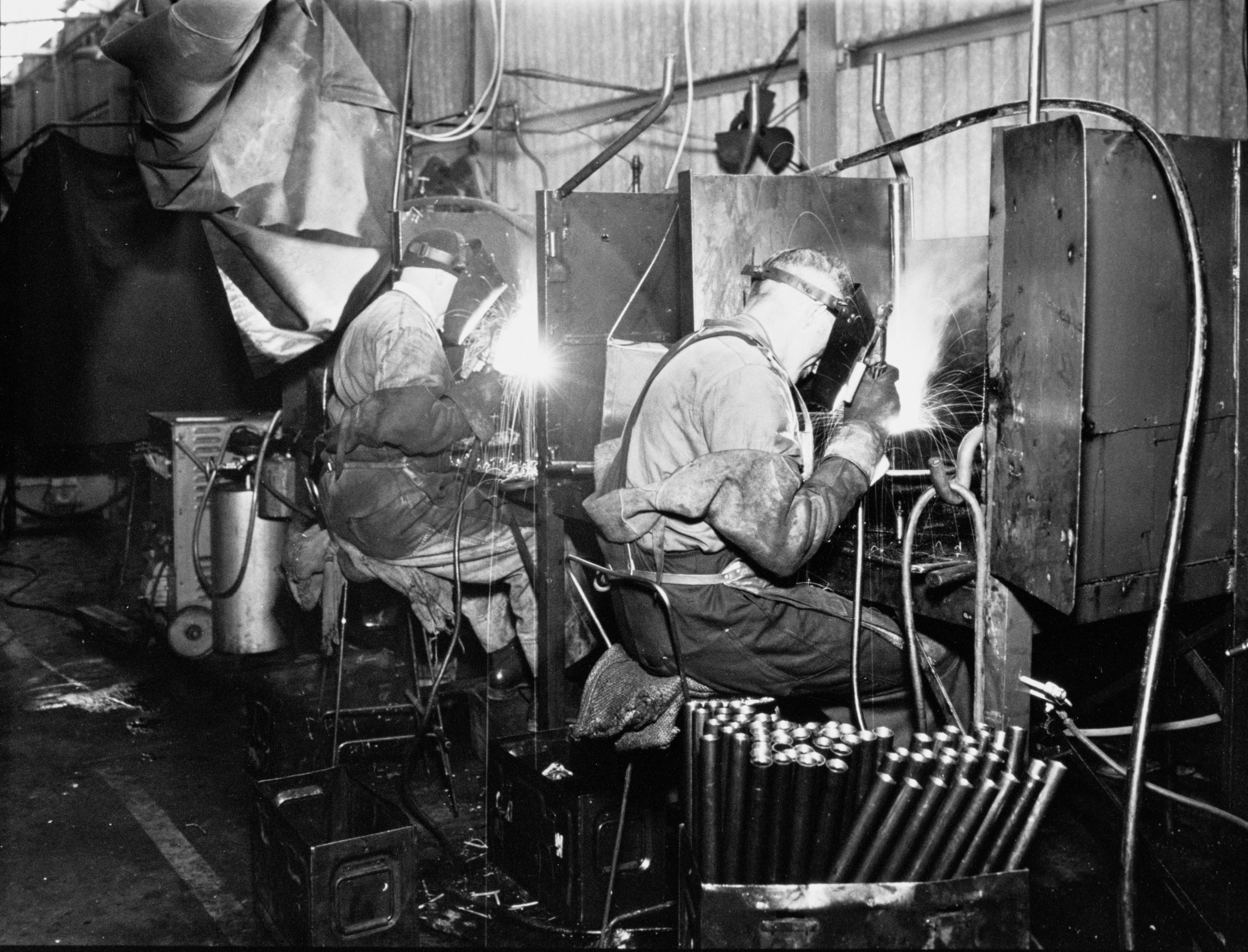 A factory worker at Lightburn & Co. The company's products included brick moulds, "Lightning" brand concrete mixers, wheelbarrows, trailers, wheels, hydraulic jacks, washing machines and spin driers. Lightburn began marketing domestic washing machines around 1949. The company had a deserved reputation for unsophisticated, well-made, rugged reliable products, but a later venture, the Zeta automobile, manufactured from 1963 to 1965, was an unmitigated failure.